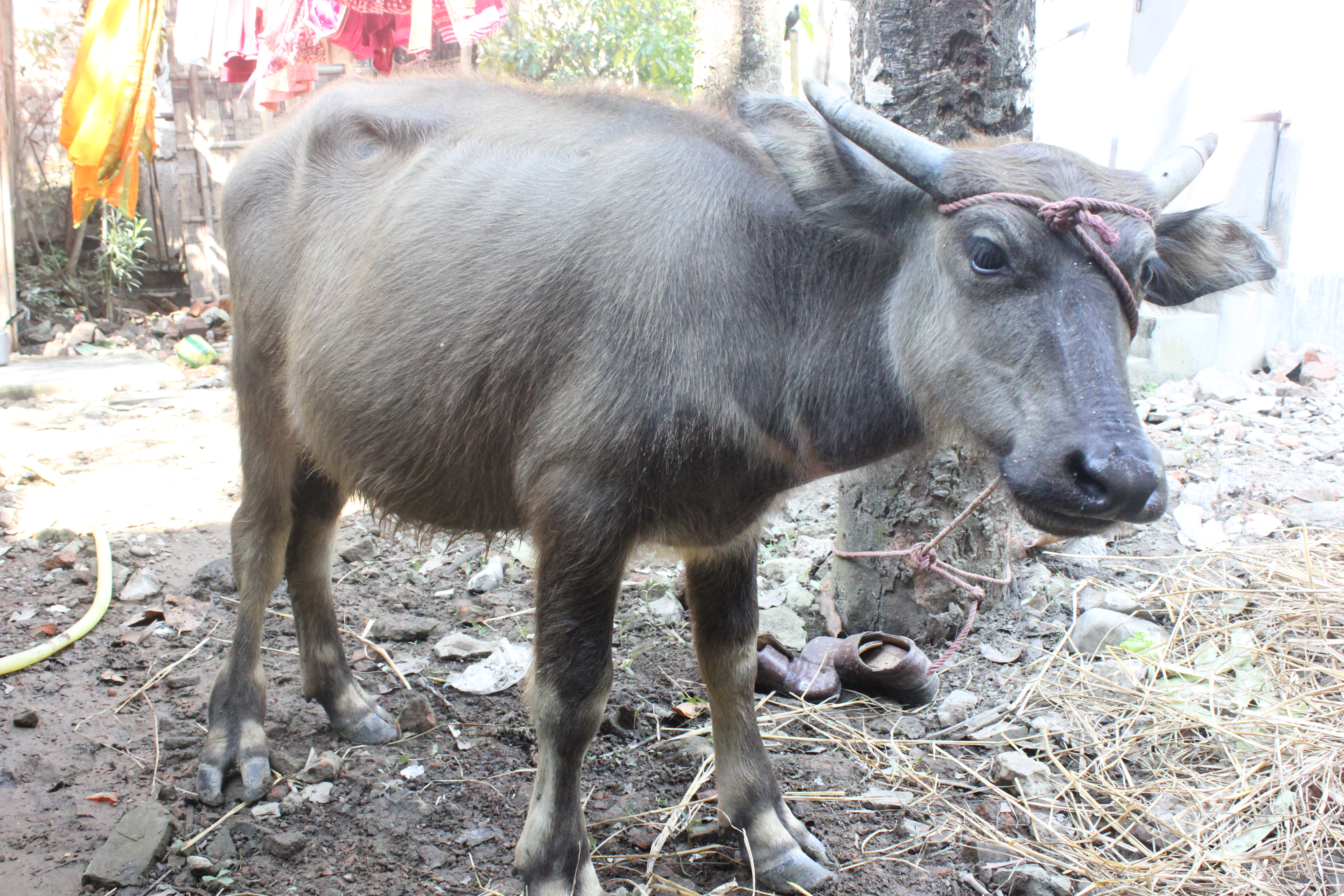 A male buffalo before it's sacrifice which took place on the occassion of Durga Puja in Kalibari Temple, Silchar, Assam